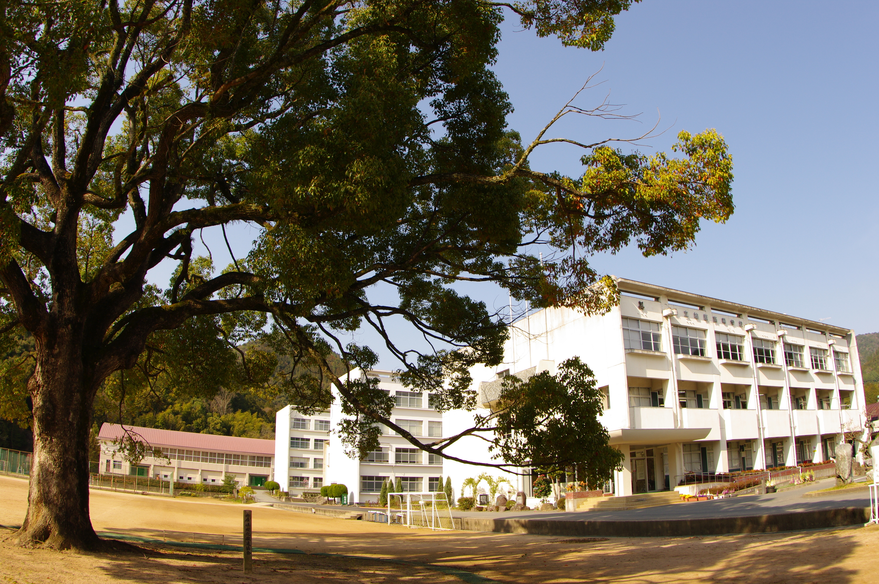 Kaibara high school